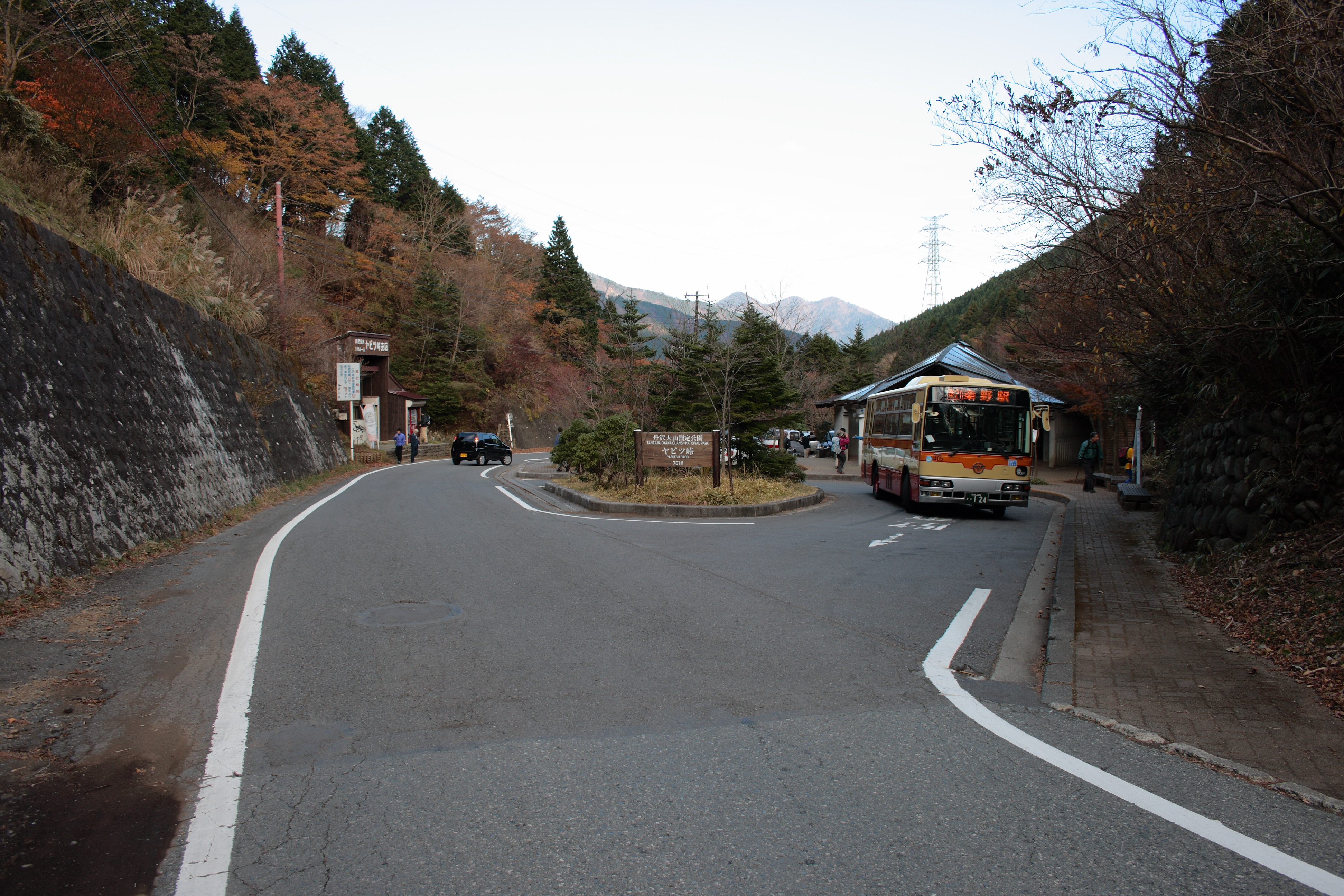 Yabitsu-pass (Yabitsu-tōge ヤビツ峠) in Mts. Tanzawa, Kanagawa Pref., Japan.